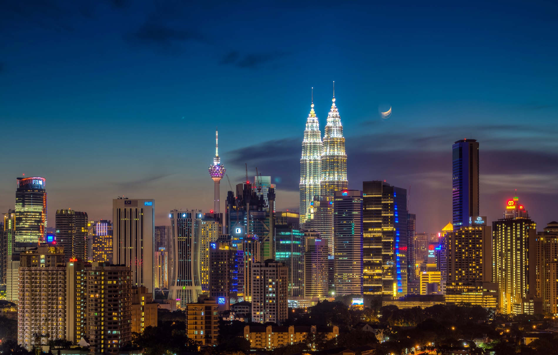 moonrise over kuala lumpur